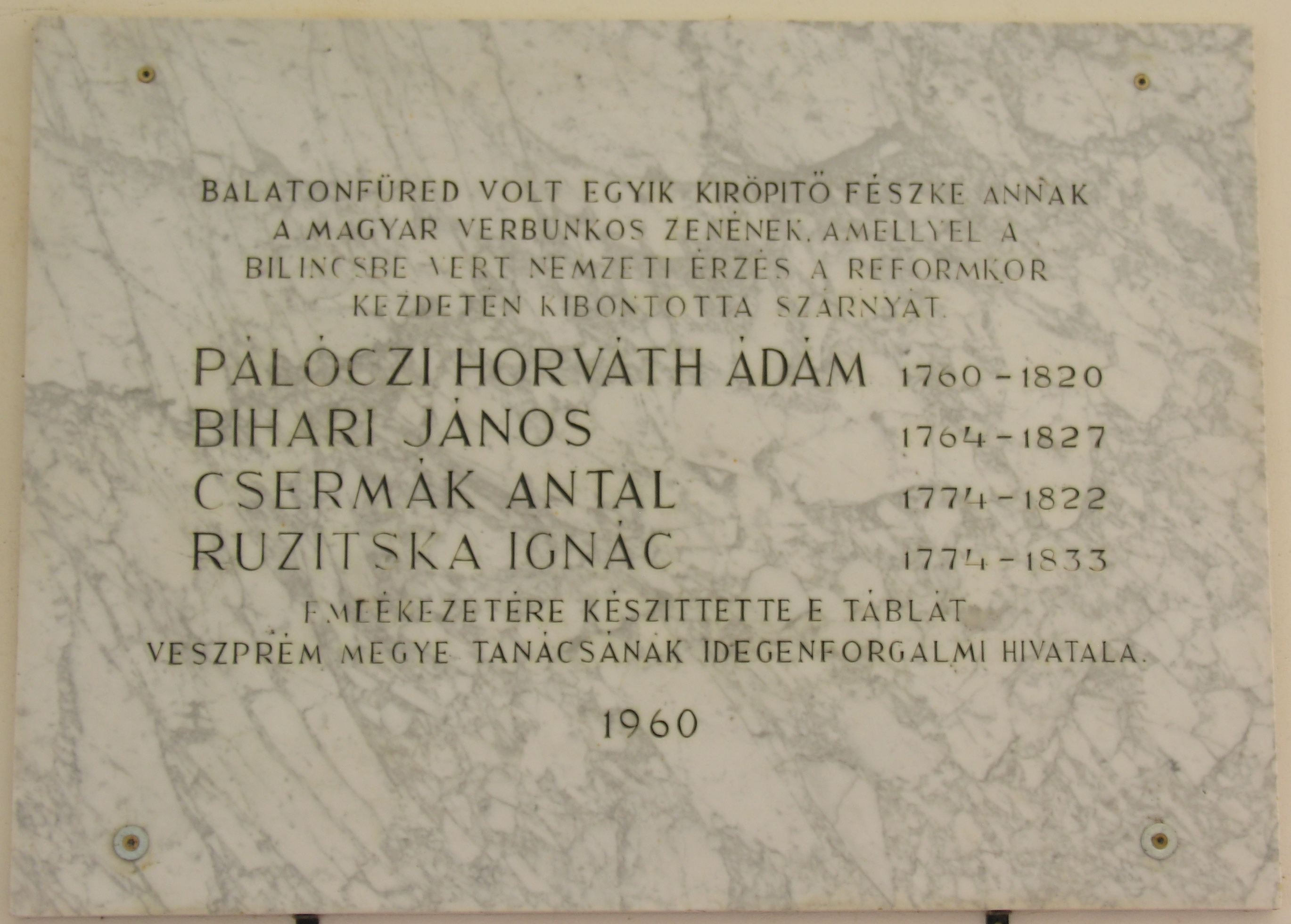 Commemorative plaque of Ádám Pálóczi Horváth, János Bihari, Antal Csermák and Ignác Ruzitska in Balatonfüred, Gyógy Square No 1